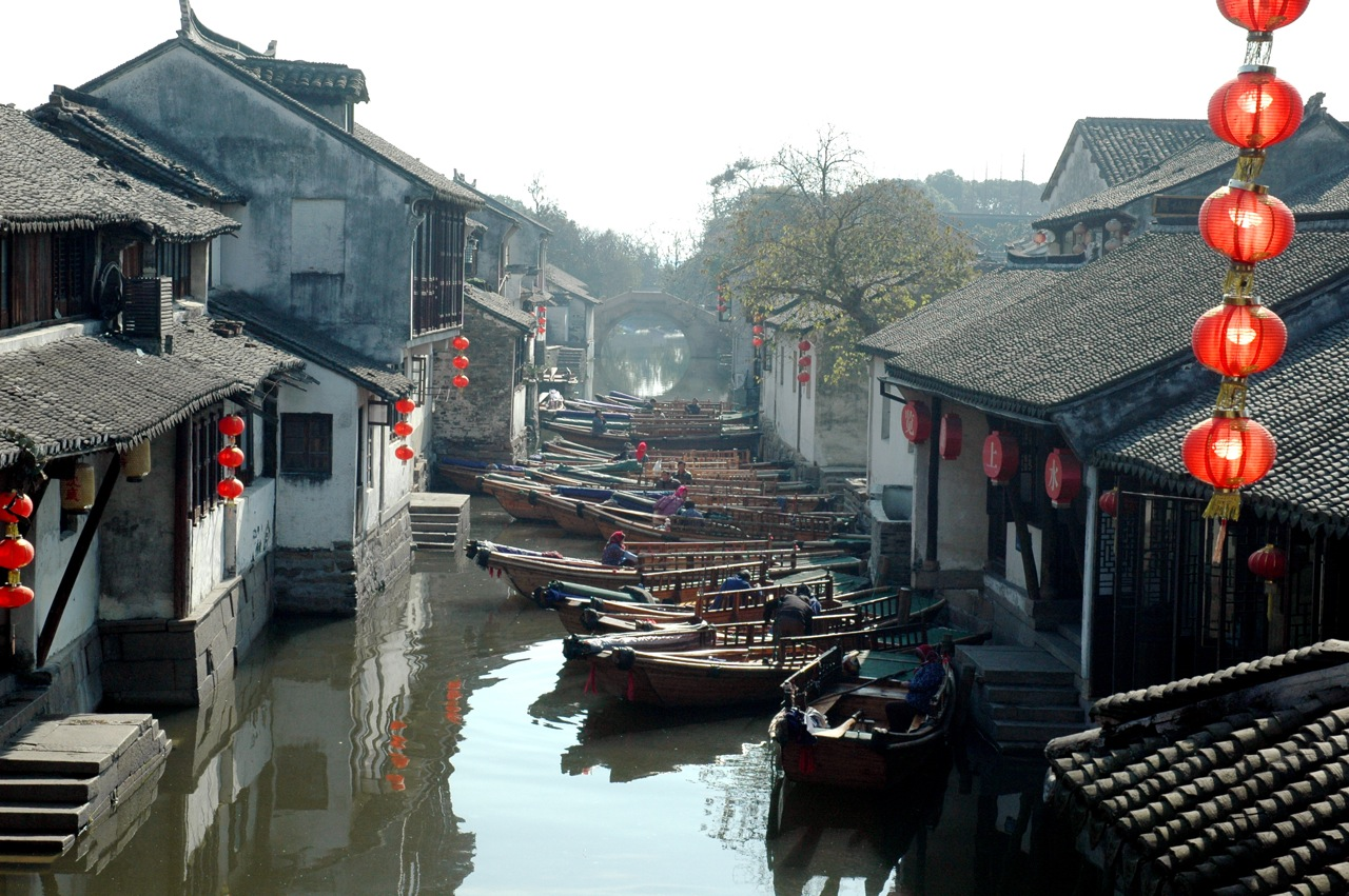 Zhouzhuang, a famous historic town in China.